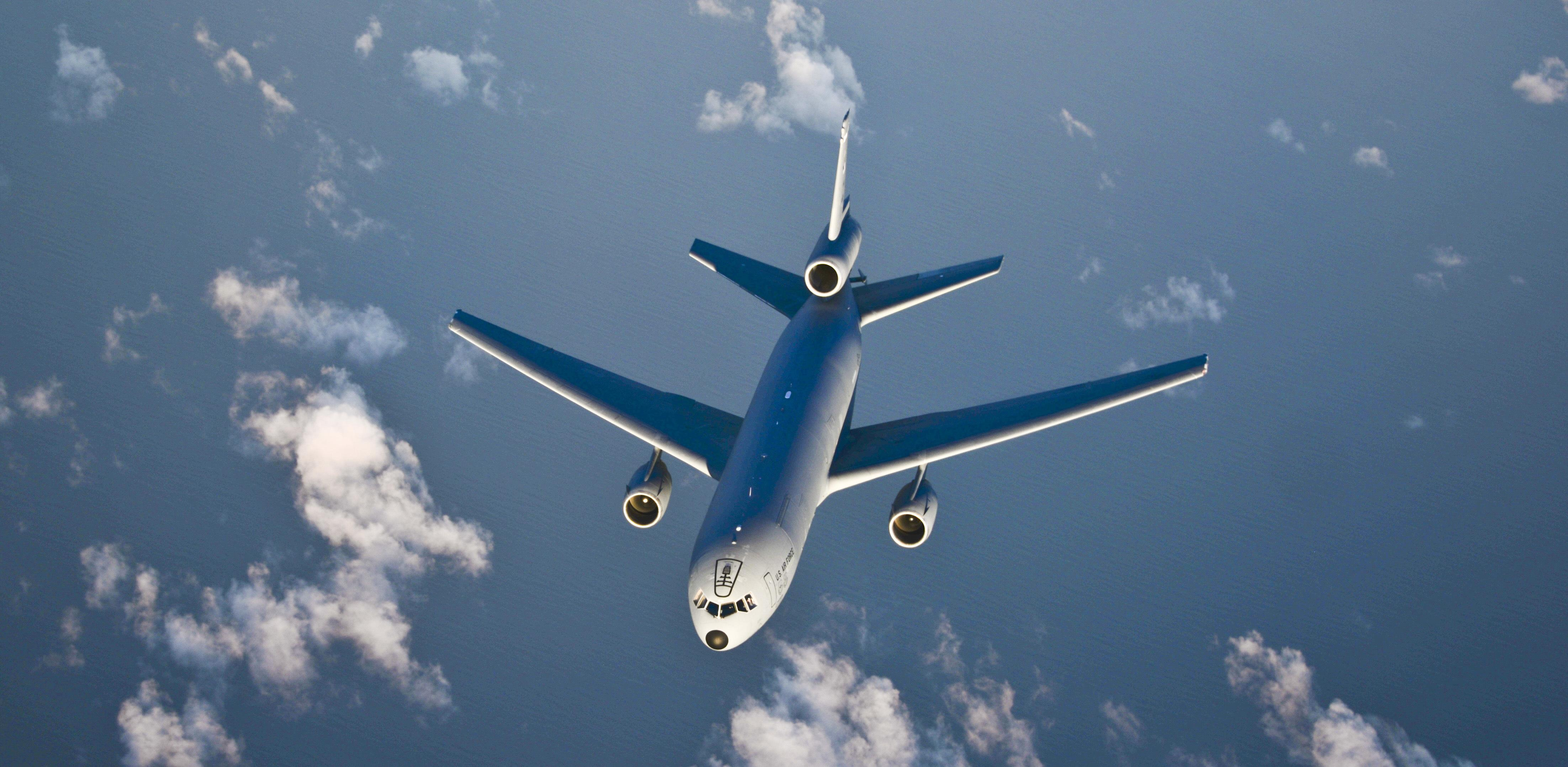 A McDonnell-Douglas KC-10 Extender of Travis AFB approaching a second KC-10 for aerial refuelling over the Pacific Ocean during Exercise Talisman Saber 2017, 14 July 2017